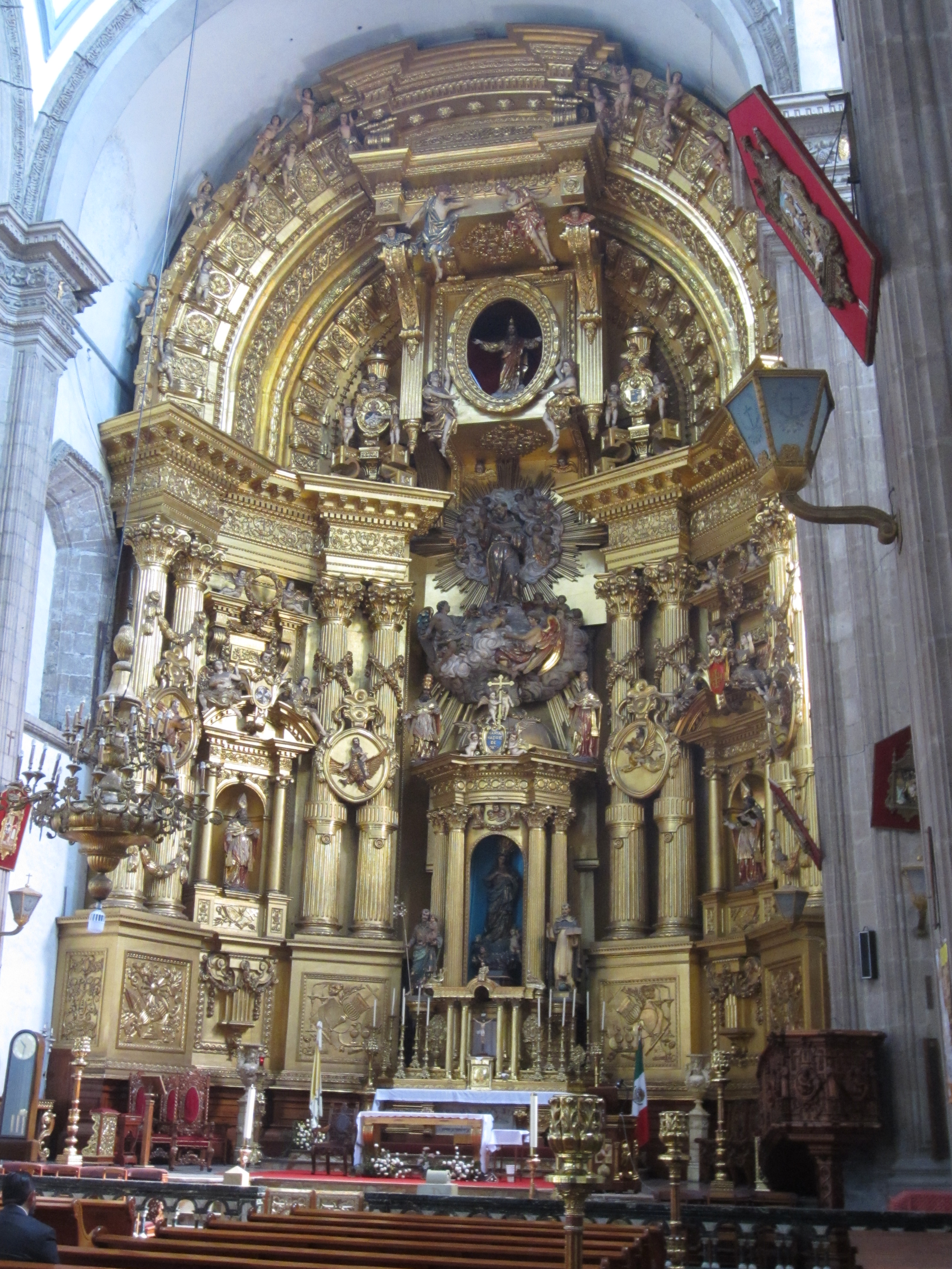 Mexico City (2018)